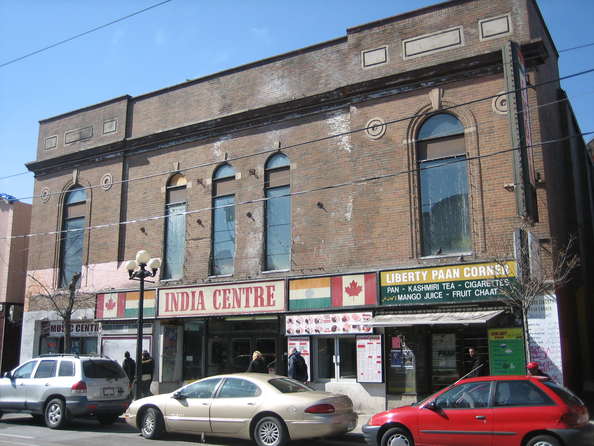 India Centre in Toronto, Former Eastwood Centre